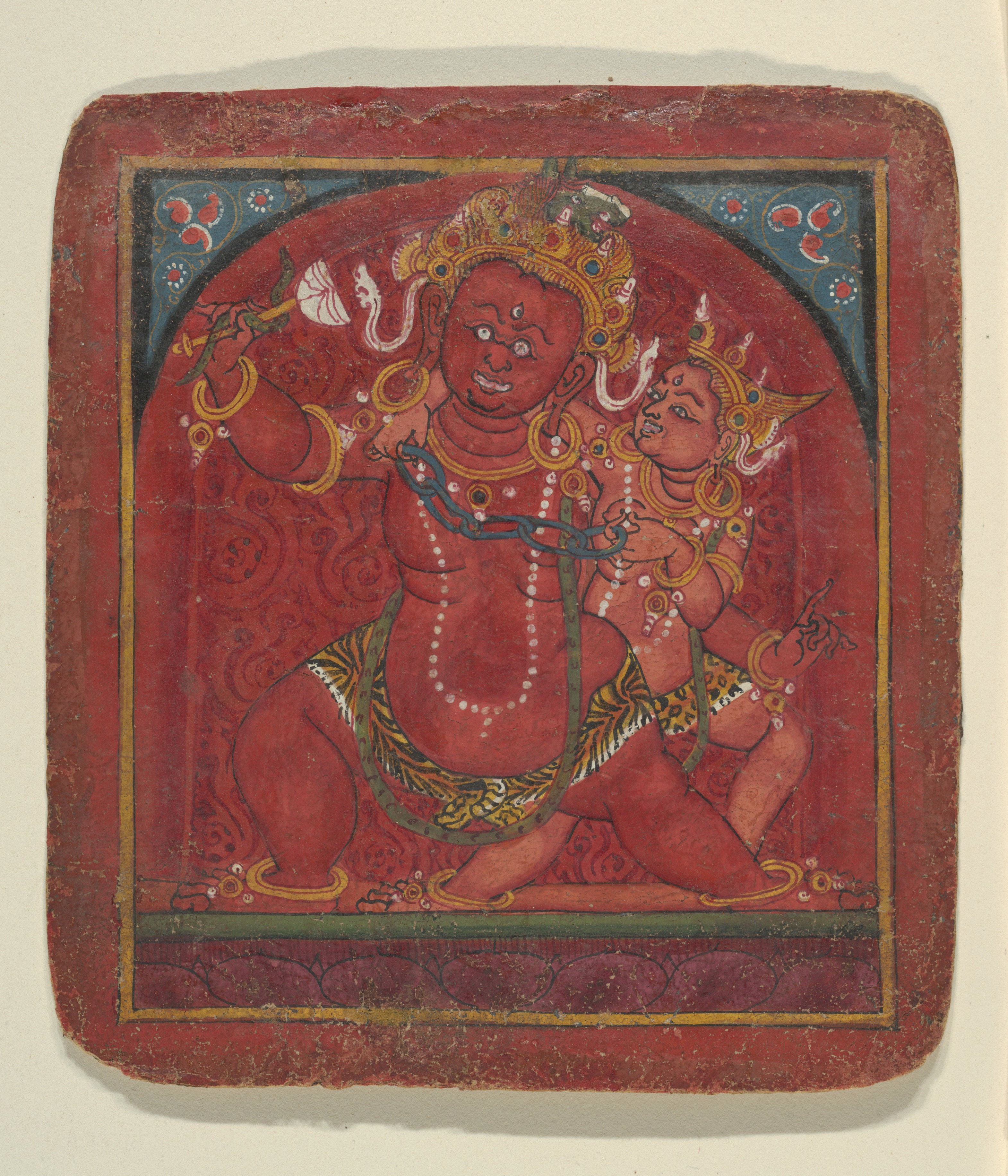 Initiation Card (Tsakalis). Hayagriva. Tibet, 13-14th century, Metmuseum.